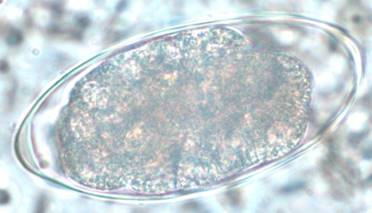 Gastrointestinal parasites in seven primates of the Taï National Park - Helminths Figure 3l of paper. Egg of Trichostrongylus sp.